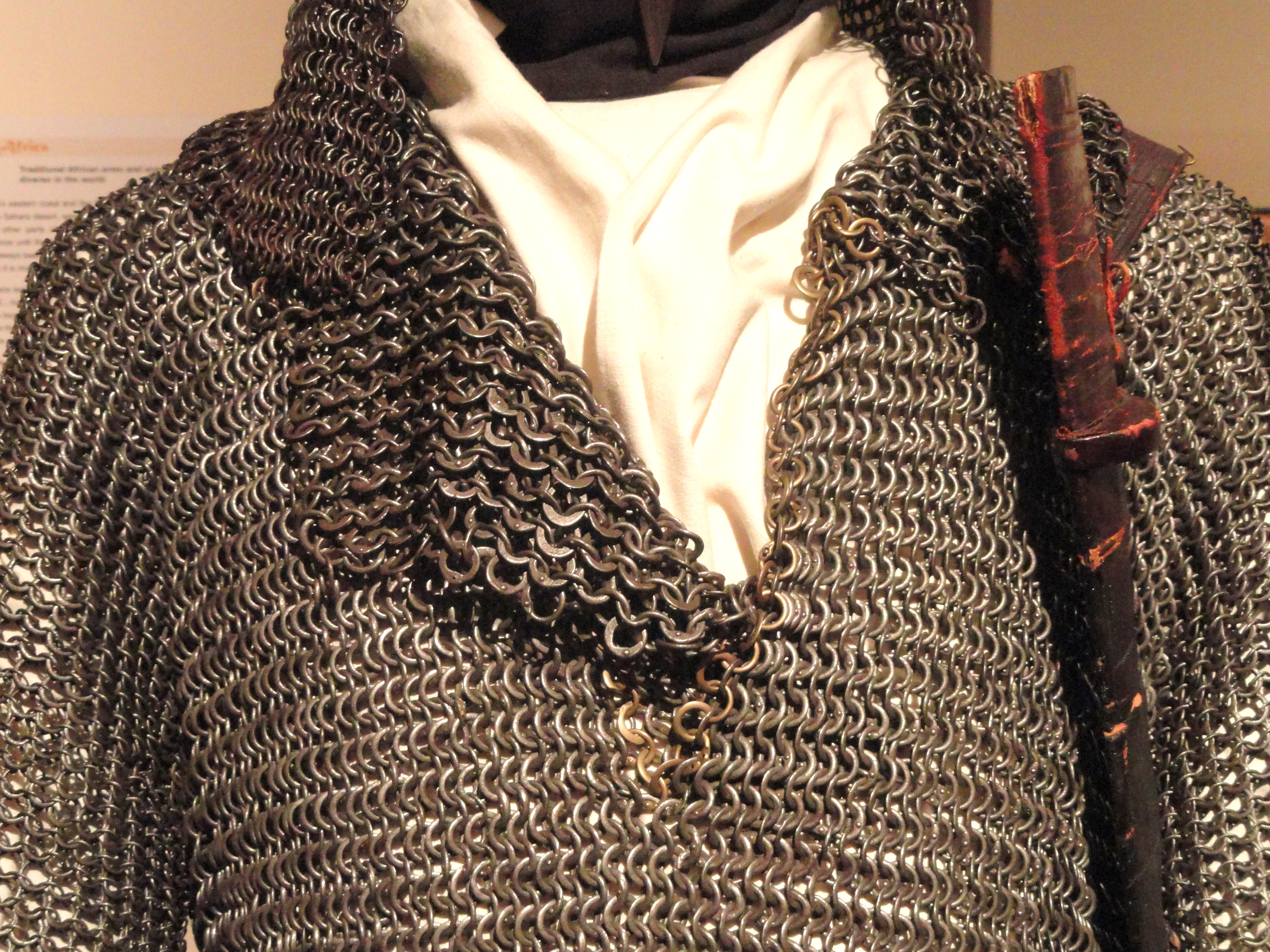 Exhibit in the Higgins Armory Museum, 100 Barber Avenue, Worcester, Massachusetts, USA. The museum permitted photography without any restriction, both in writing and when I asked verbally.